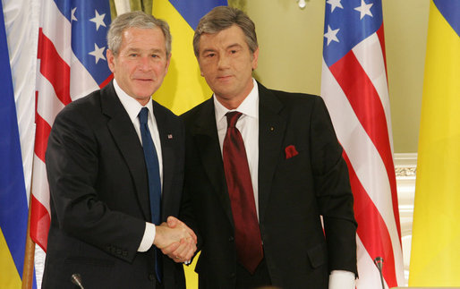 United States President George W. Bush (left) and Viktor Yushchenko shake hands after their joint press availability Tuesday, April 1, 2008, at the Presidential Secretariat in Kiev.